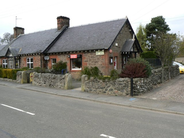 Cottage Post Office The village Post Office in Forgandenny.